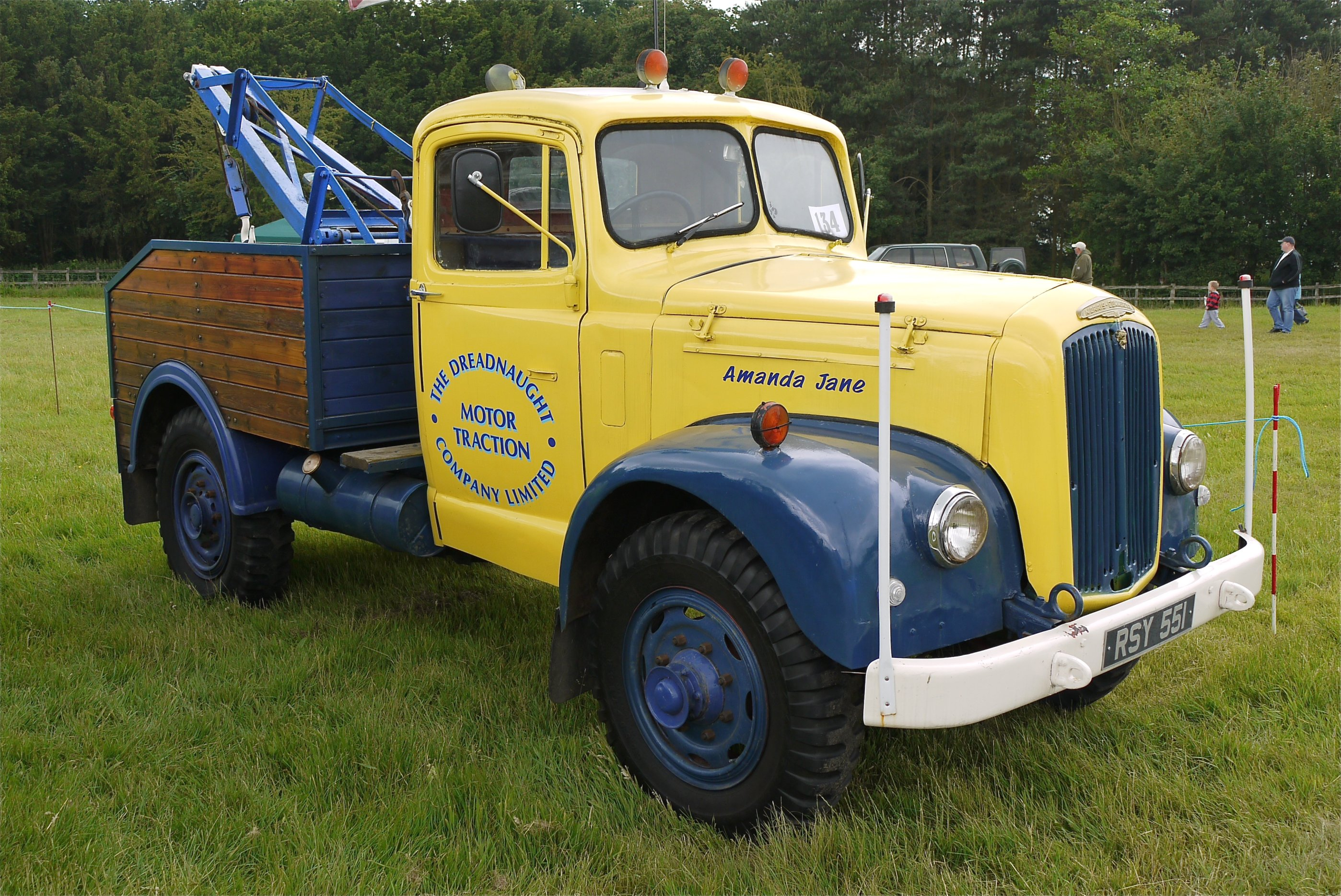 Panasonic G1 14-45 Lens brandname is Morris-Commercial